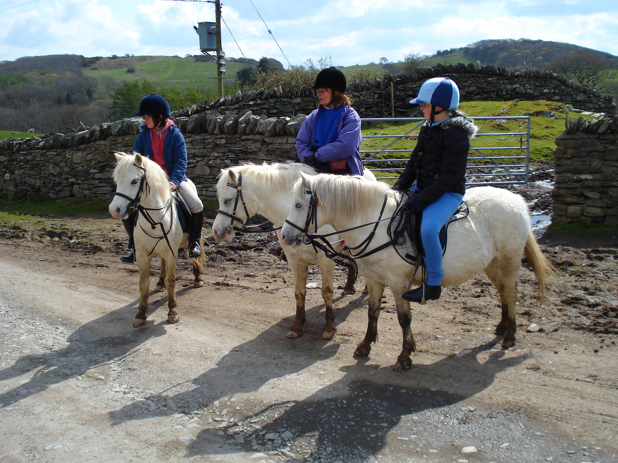 Welsh Mountain Ponies